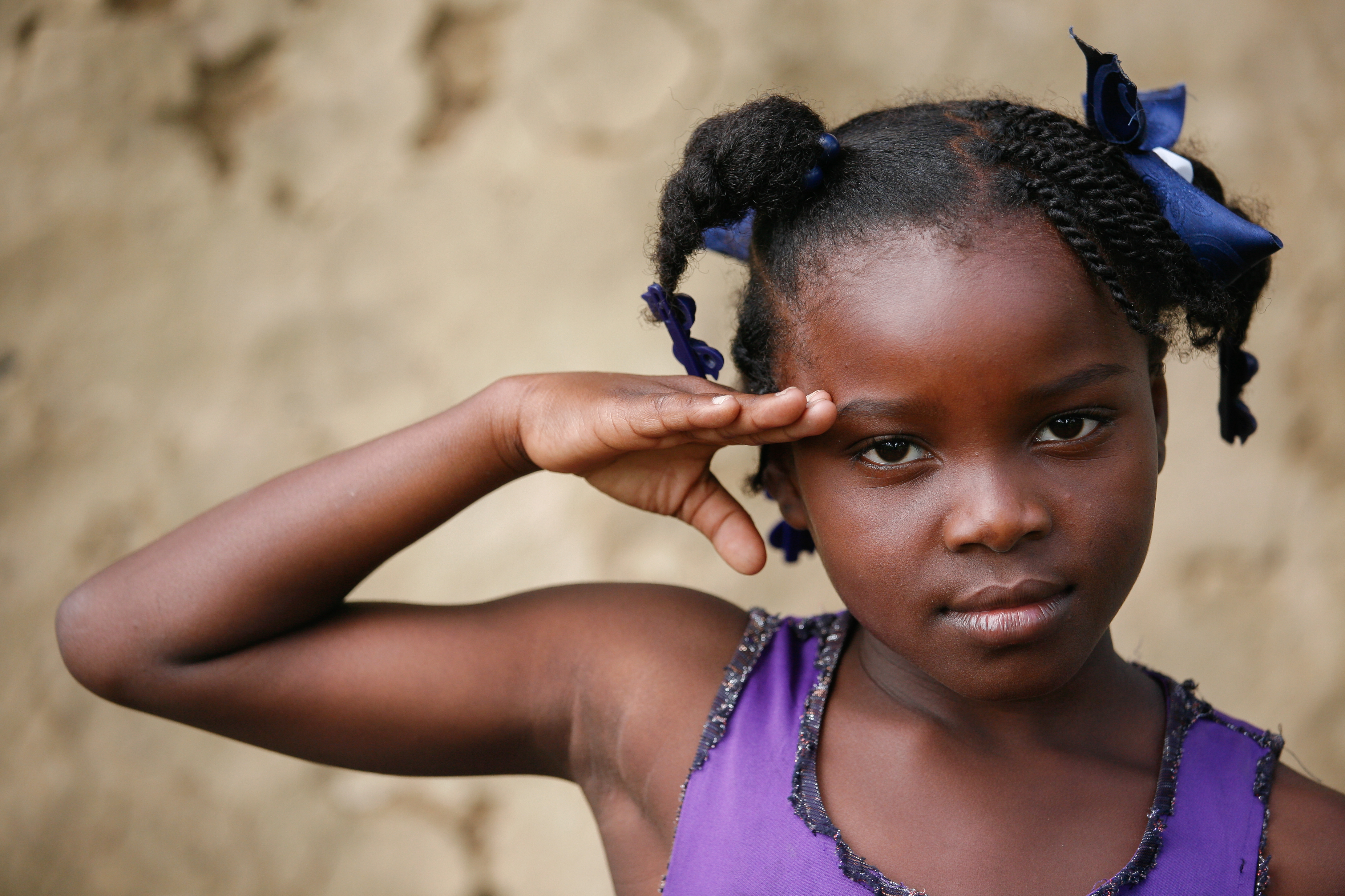 At Attention